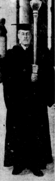 Daniel Webster Hering, American physicist and skeptic.